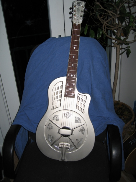 Dobro, Metal Resonator guitar National resophonics resorocket